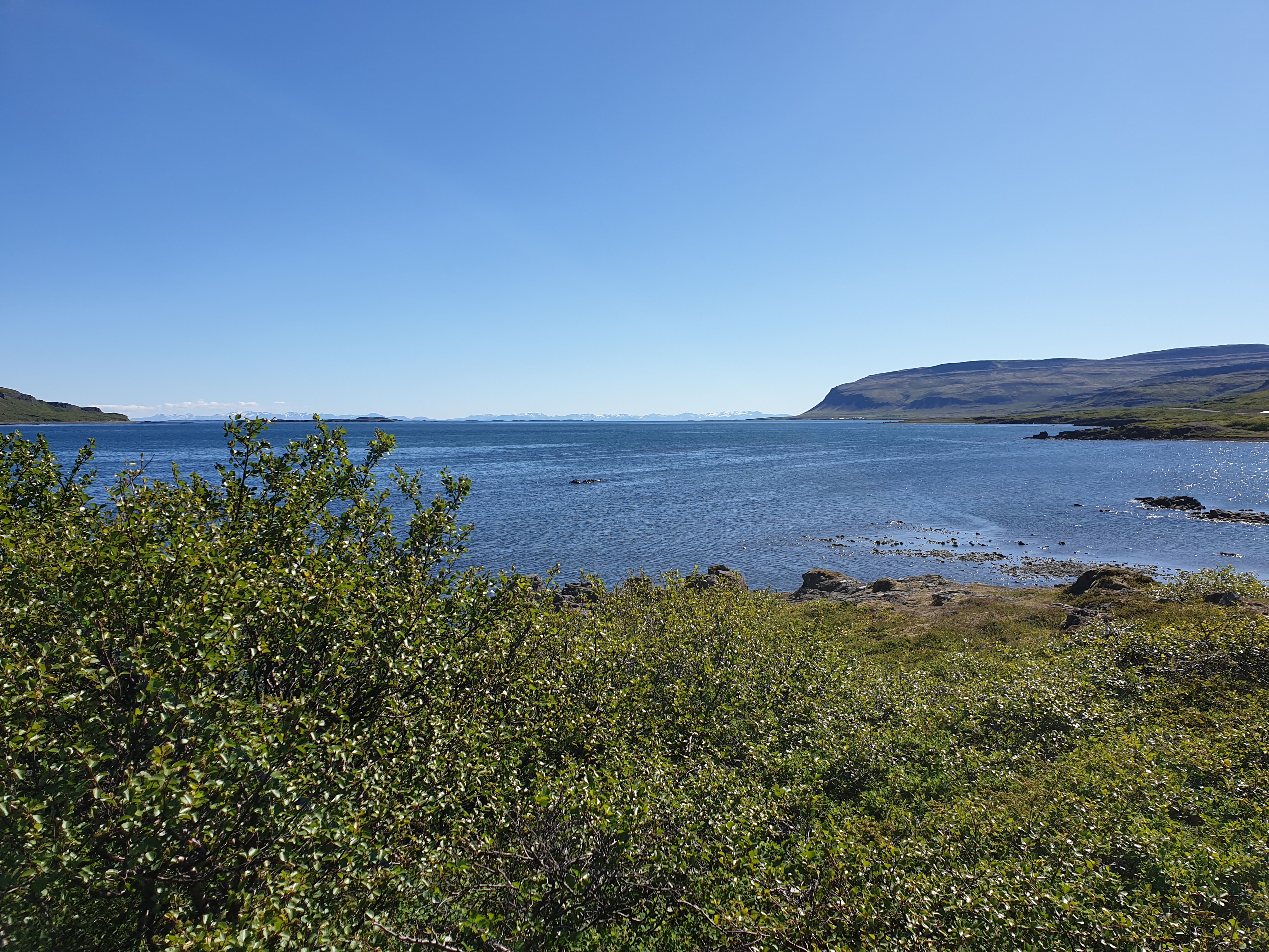 Vatnsfjörður in Barðaströnd